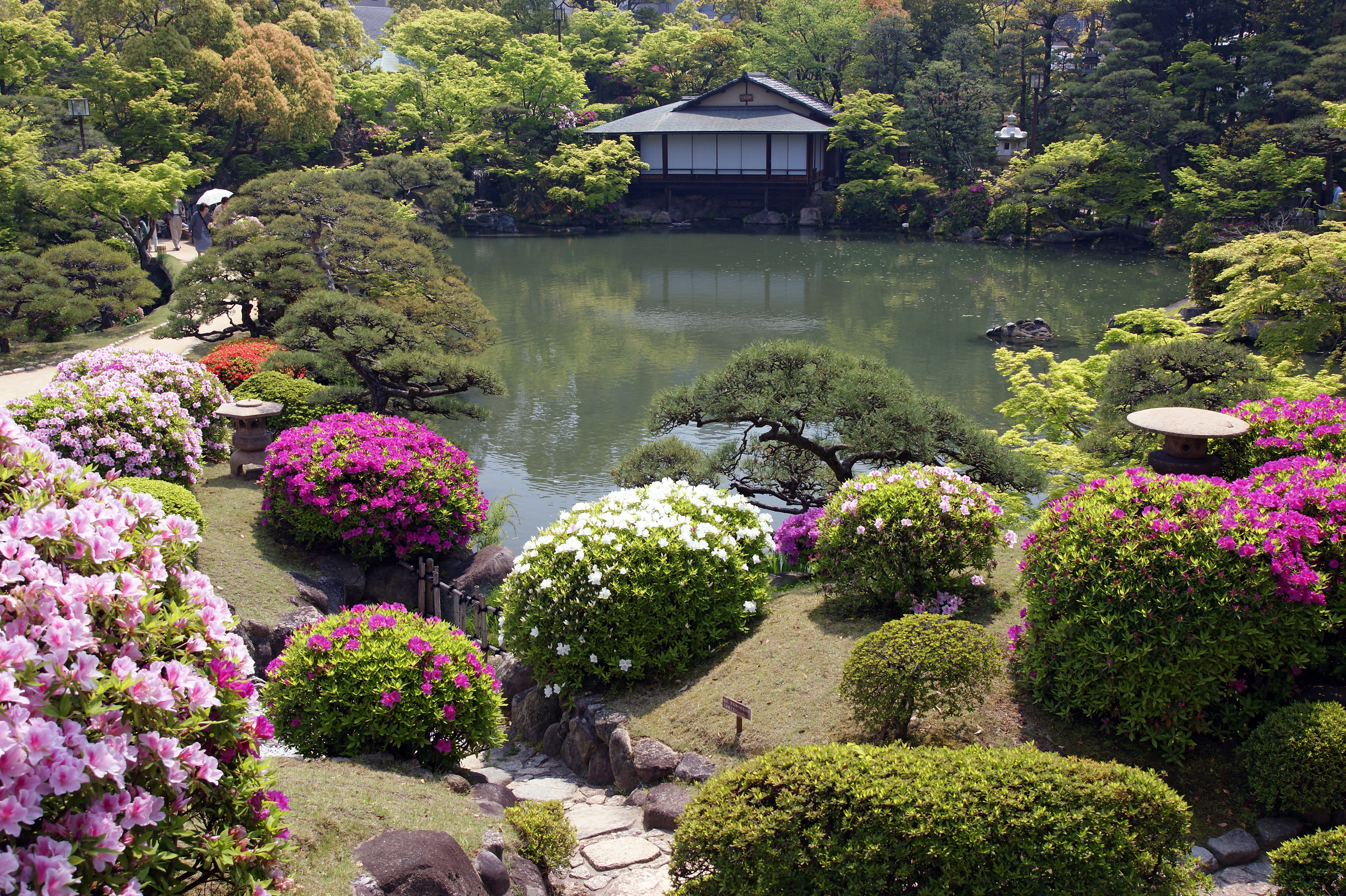 "Sorakuen" in Kobe, Hyogo prefecture, Japan